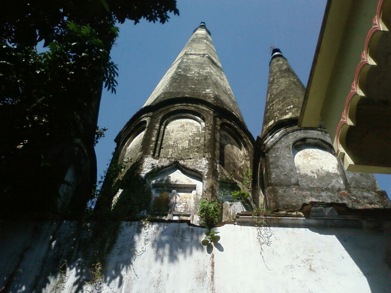 Moth of Kal Bhairab Temple